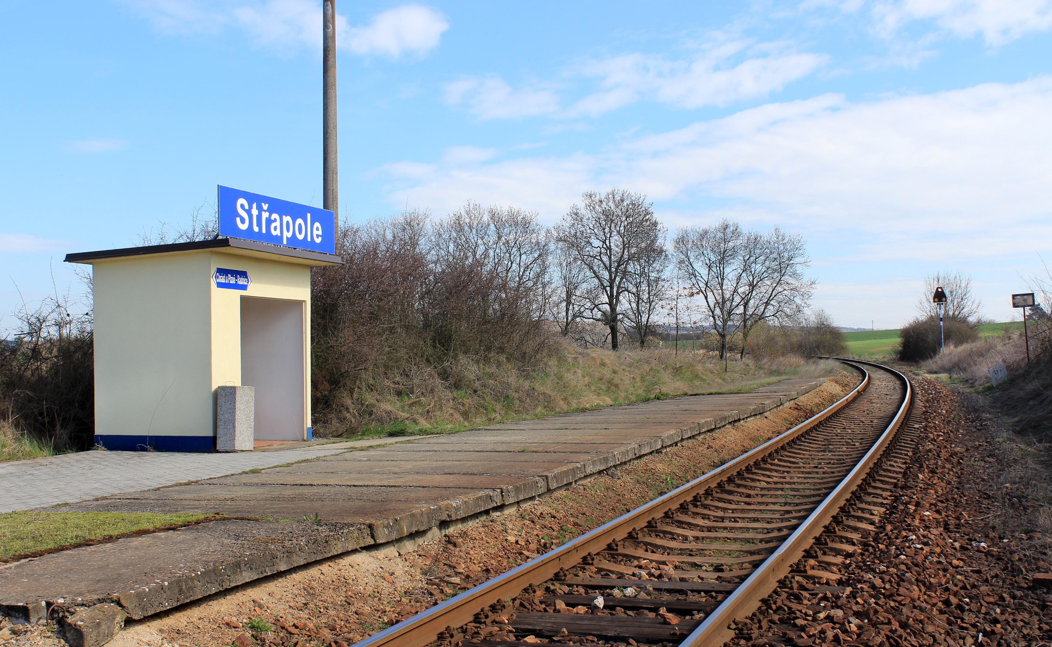 Train stop in Střapole, part of Bušovice, Czech Republic.